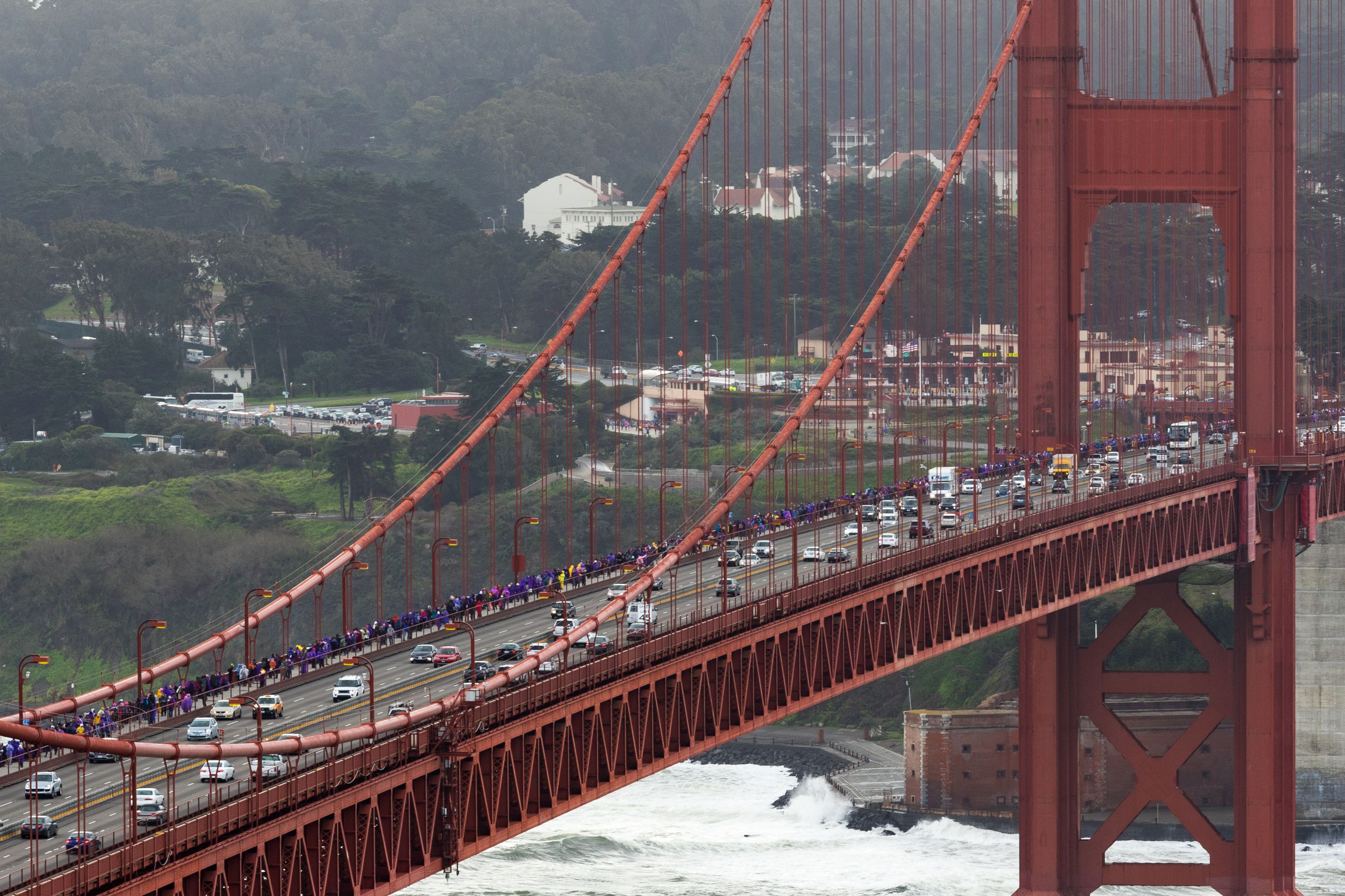 Several thousands of people, many of them dressed in purple (the symbolic color of anti-bullying) formed a human chain on the sidewalk across the Golden Gate Bridge to peacefully oppose the inauguration of president Donald J. Trump. Called “Bridge Together Golden Gate,” the event was described as the first-ever human chain across the bridge. The group organizing the event aimed at creating “a human bridge of togetherness” focused on positivity.